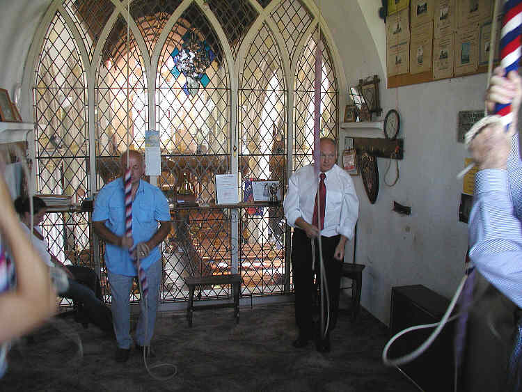 Change ringing in Stoke Gabriel parish church, south Devon, England. Thanks to the bell ringing captain for allowing me to watch practice. Taken by Adrian Pingstone in July 2003 and placed in the public domain.